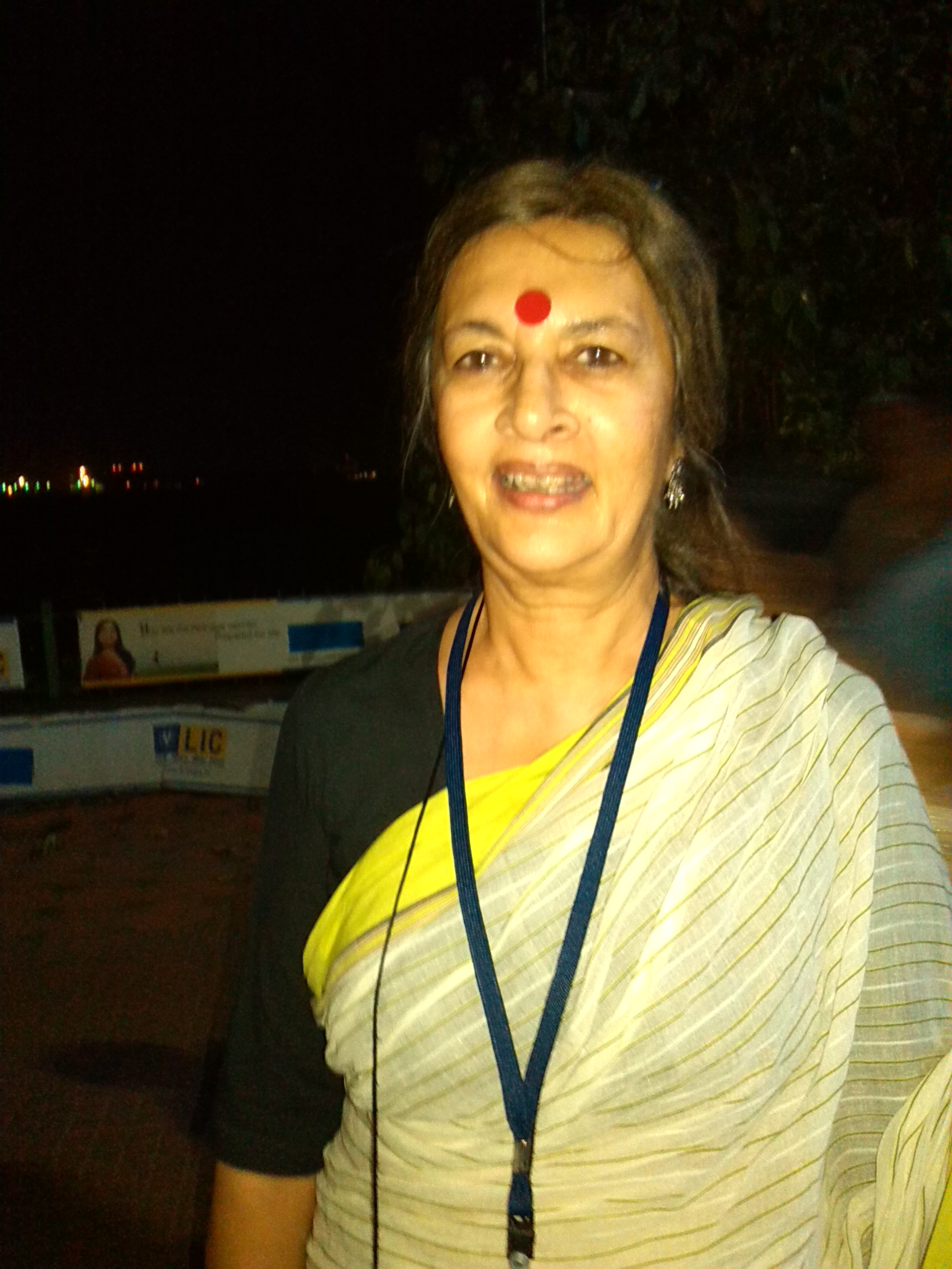 a CPI(M) politician